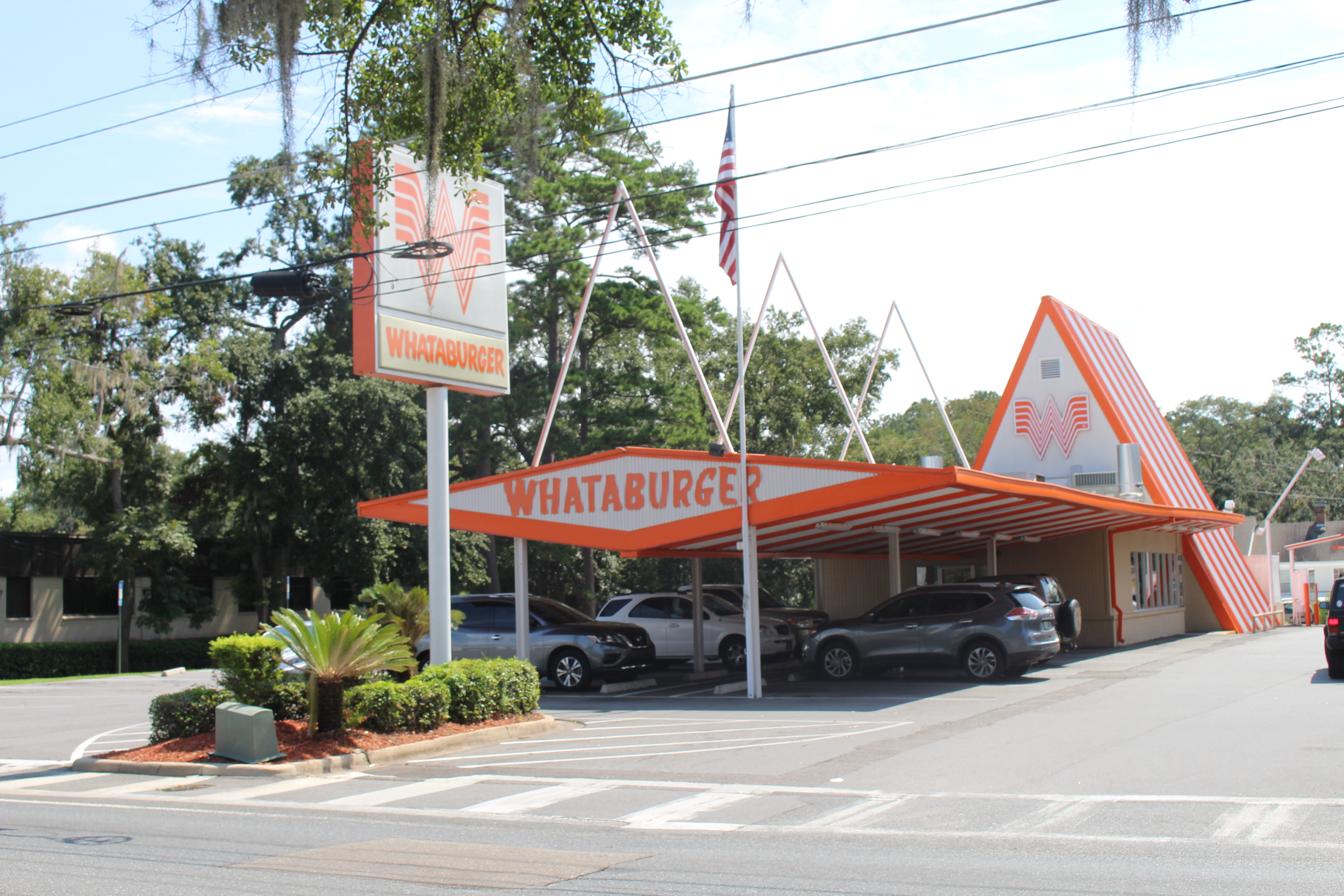 Whataburger, Thomasville Rd, Tallahassee, Leon County, Florida